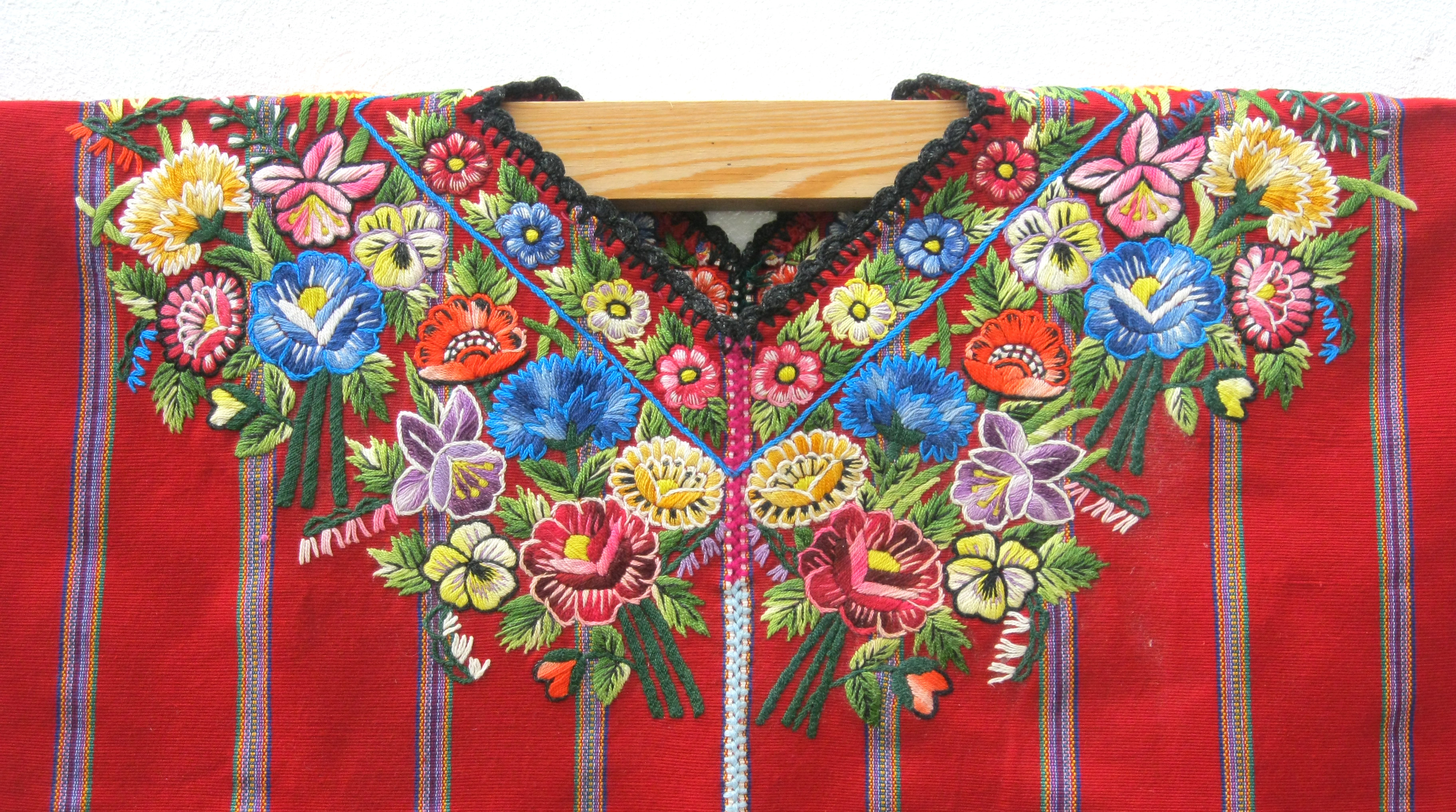 Huipil (Güipil), around 1970, unknown origin, purchased 1990 in Solola, Solola, Guatemala